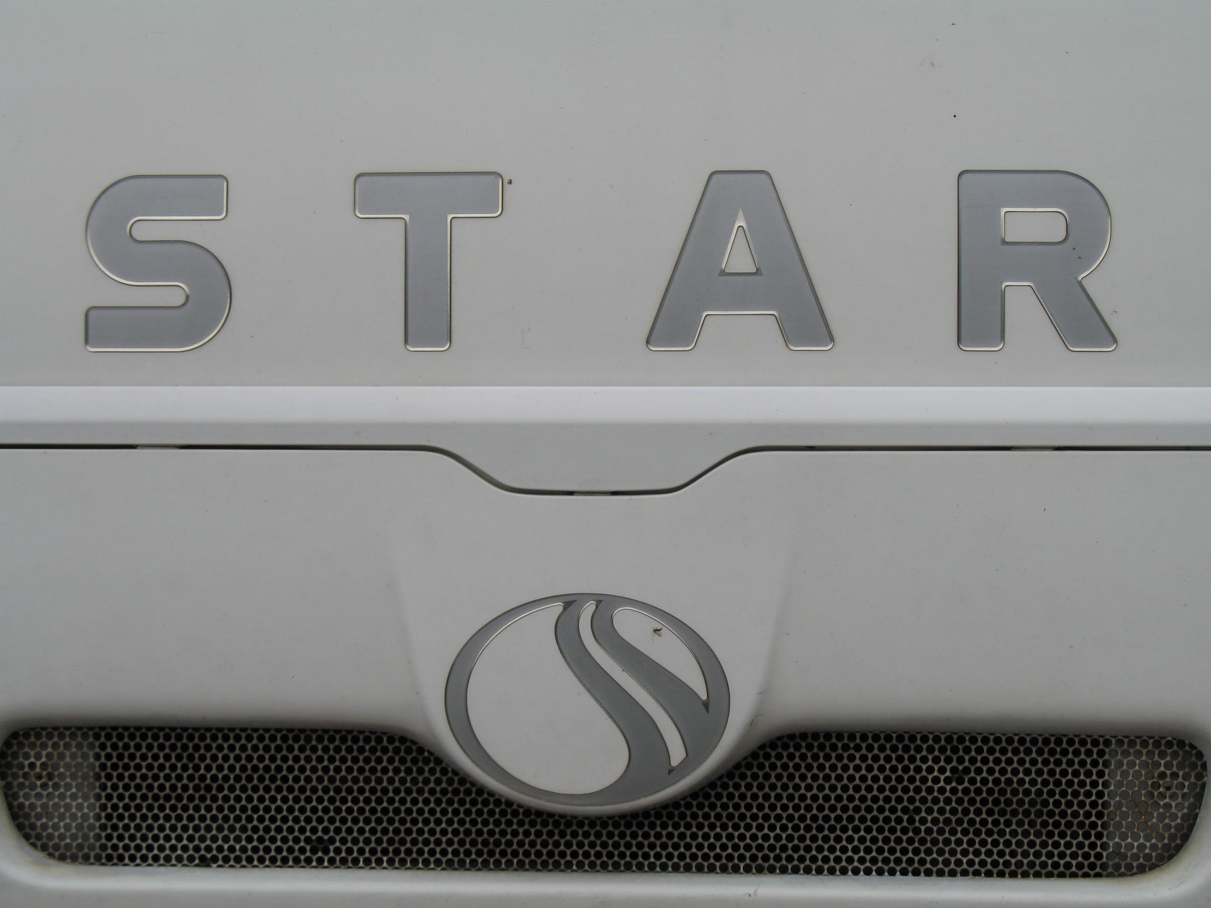 Logo and name Star truck model 14-227.